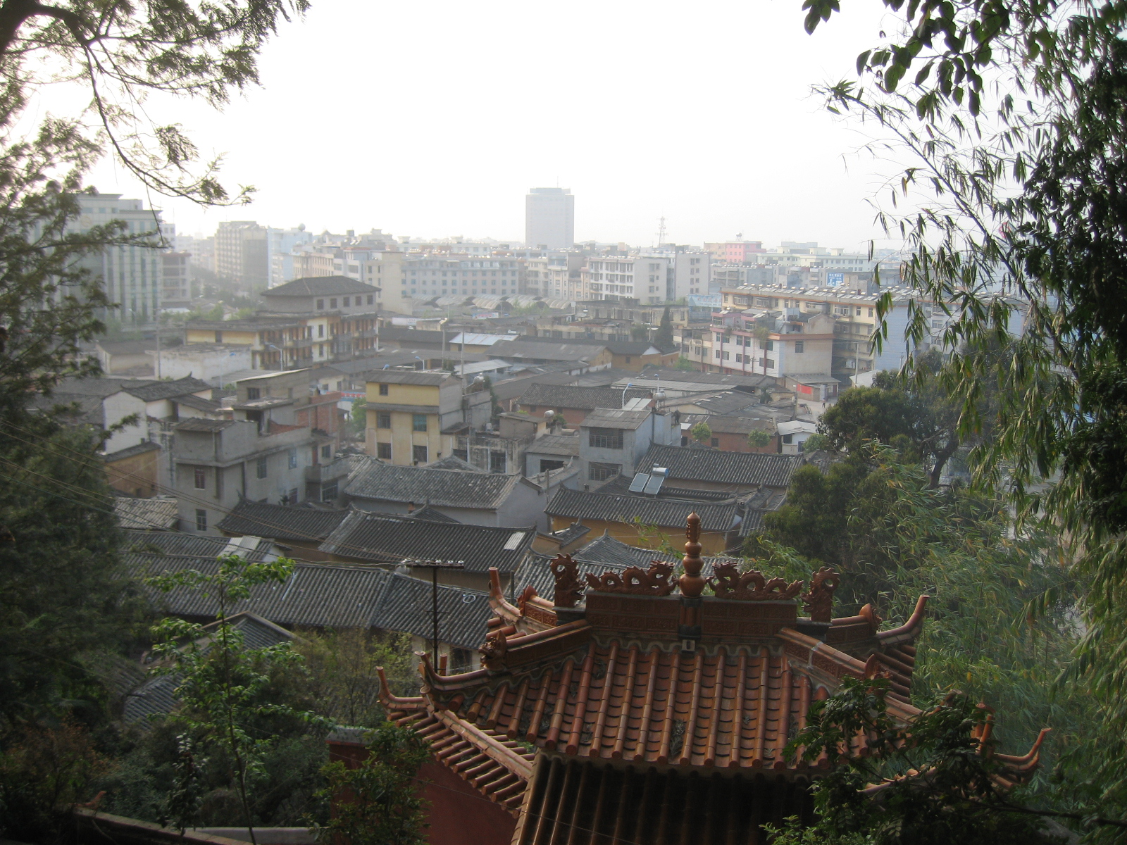 General view of Tonghai